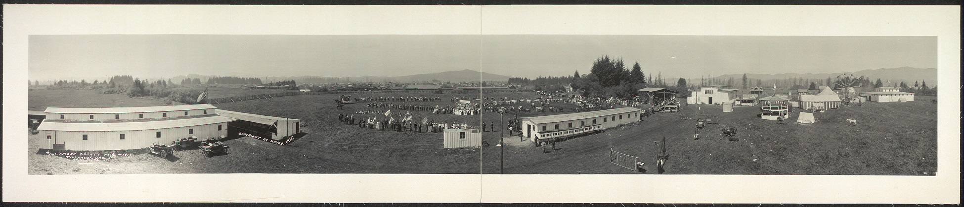 Panoramic photographs (Library of Congress): Tillamook County Fair 1915